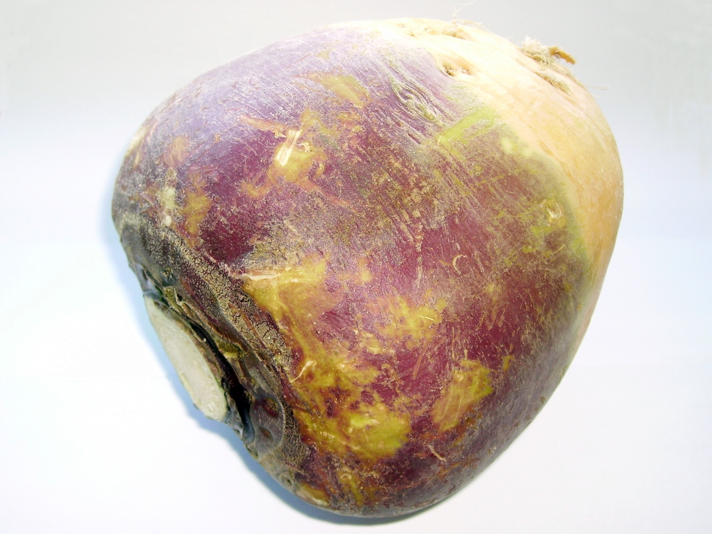 A root of rutabaga (Brassica napus subsp. rapifera)